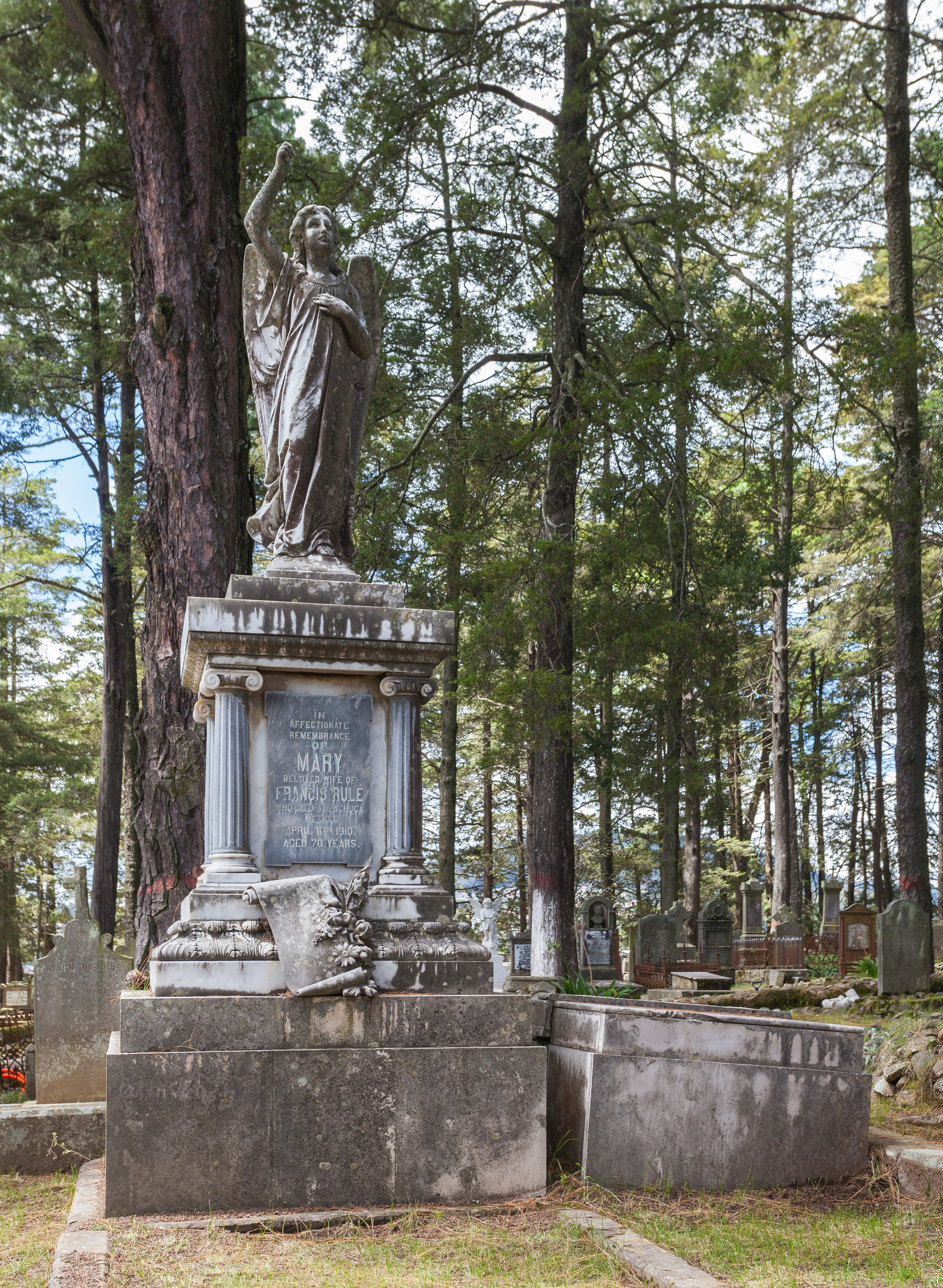 English Pantheon, Real del Monte, Hidalgo, Mexico